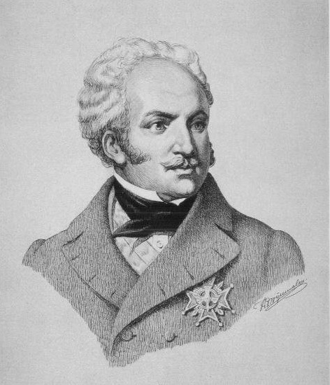 Karl Wilhelm Naundorff, a man, who claimed to be King Louis XVII. of France, 1845